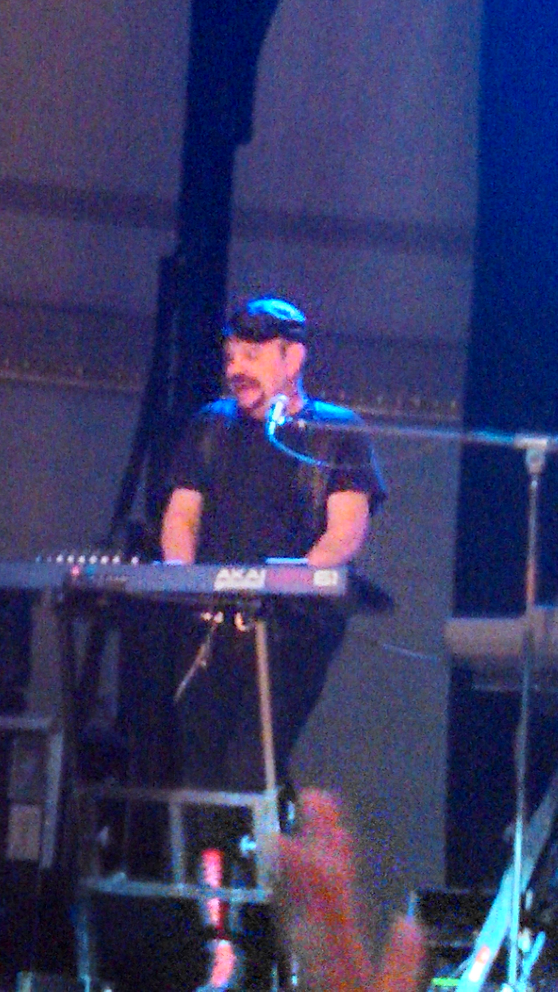 Randy Gane performing on stage